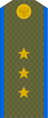 Rang insignia of the Russian army, here shoulder strap (Airborne Troops, appliquéd / removale) of the "Senior-praporshchik"(1994—2010).